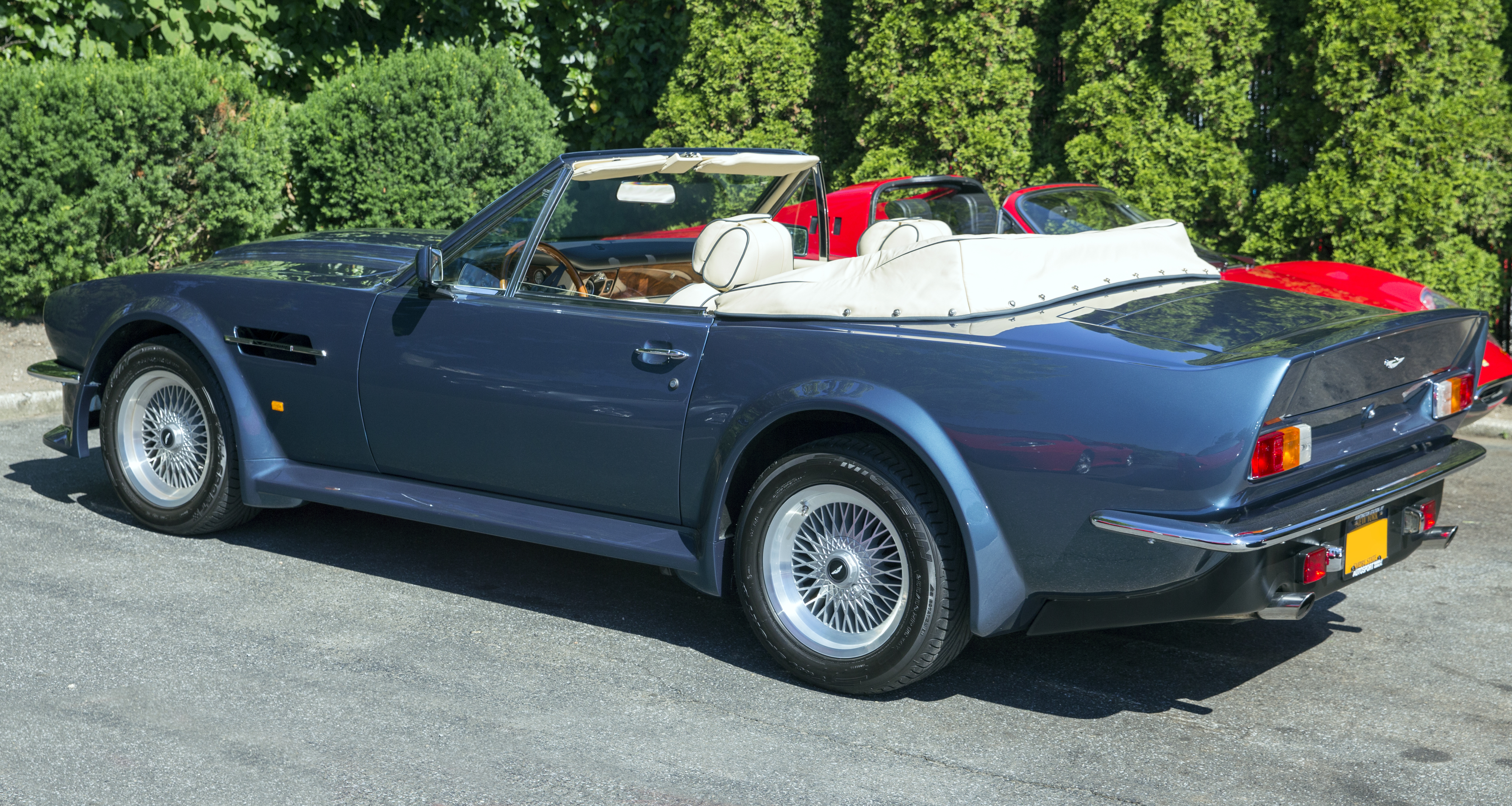 1990 Aston Martin V8 Vantage Volante at a Cars and Coffee at Autosports Designs in Huntington, NY (Long Island). Chichester Blue with blue-piped parchment leather interior, this very late car (I am guessing the tenth last Vantage Volante, so built late in 1989 - production was halted in December) is registered as an '89 in NYC. Its chassis number gained a check digit in crossing the Atlantic. Near perfect specs; five-speed and the 432hp X-pack engine. It was offered by Bonhams in the UK in 2008, at which time the car was RHD. At the time it had 29,500 miles and had been serviced in Kensington all its life. This car then travelled from the UK to NY in February 2016.